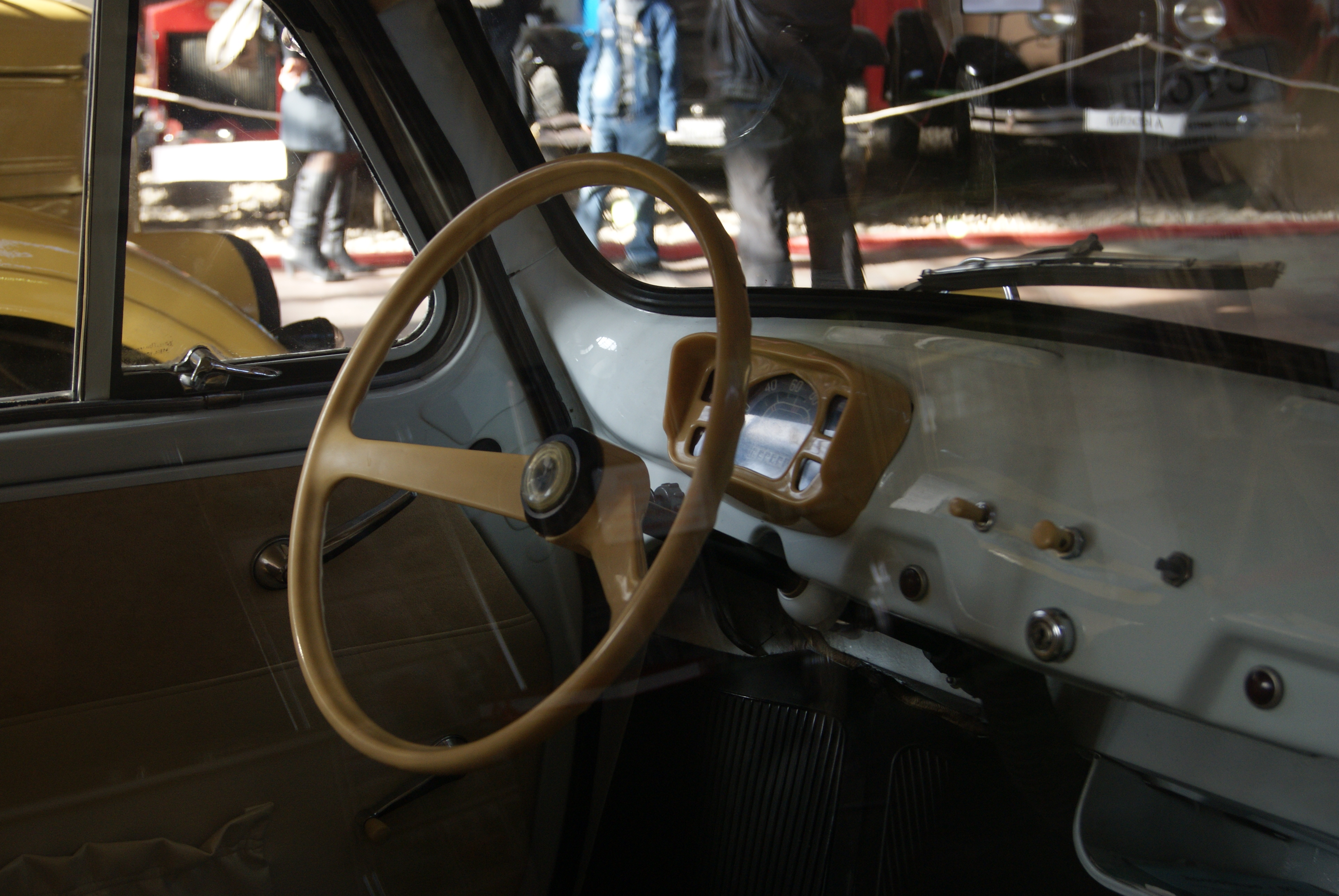 ZAZ 965 Interior.